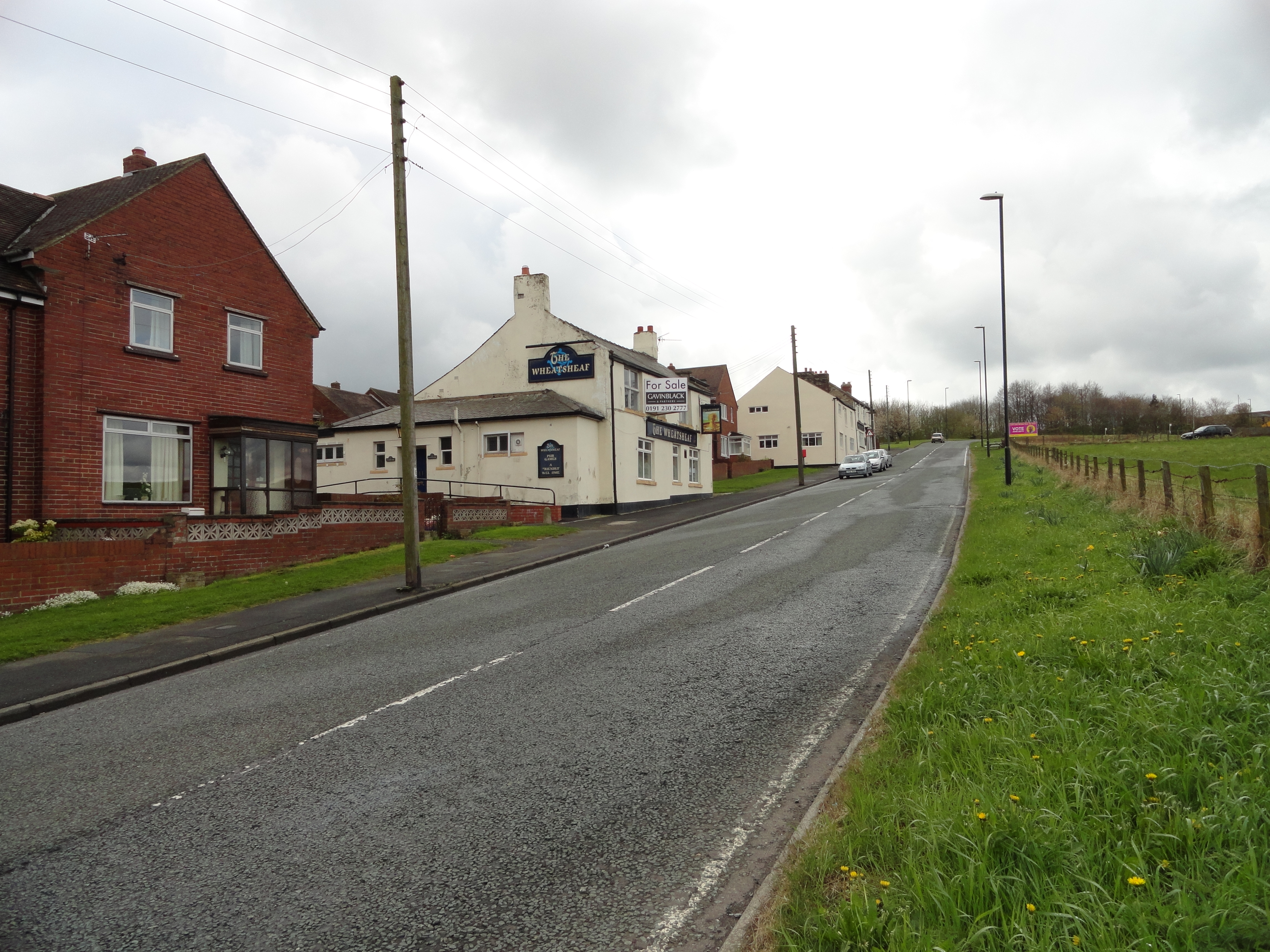 The Wheatsheaf, Low Moorsley, near East Rainton, Sunderland